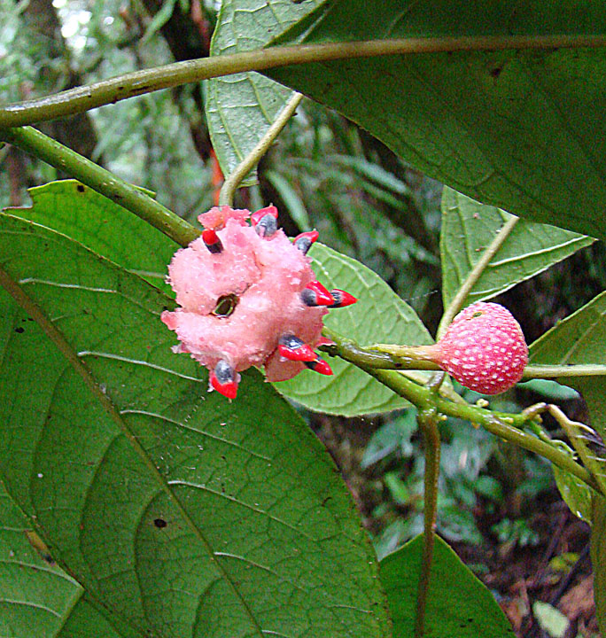 Showing the Pasma Fruit before and after inversion. Photo from a cloud forest in northern Nicaragua. In context at